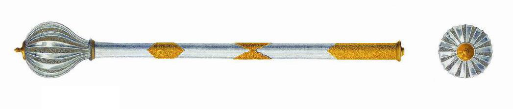 Russian mace, bulat steel.